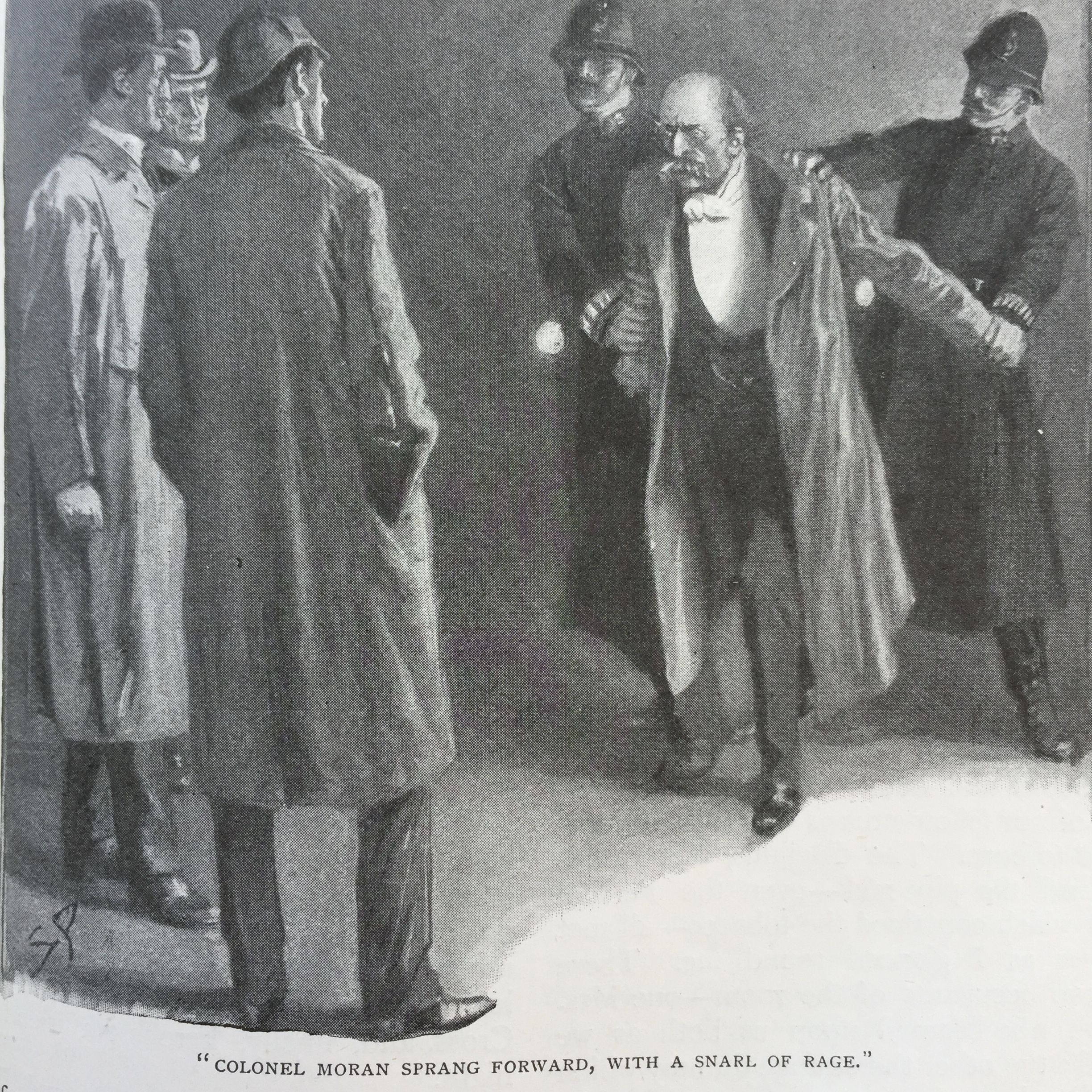 Arthur Conan Doyle, "The Adventure of the Empty House" (1903), Illustration by Sidney Paget, in The Strand Magazine. The arrest of Colonel Moran. Original caption:"Colonel Moran sprang forward, with a snarl of rage."